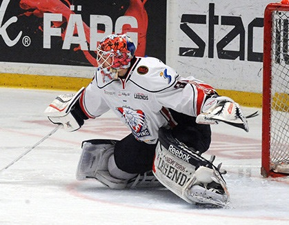 Christian Engstrand during a SHL game against AIK.